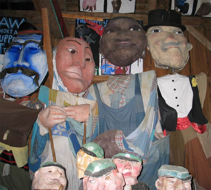 Puppets found in the Bread & Puppet Museum in Glover, Vermont.